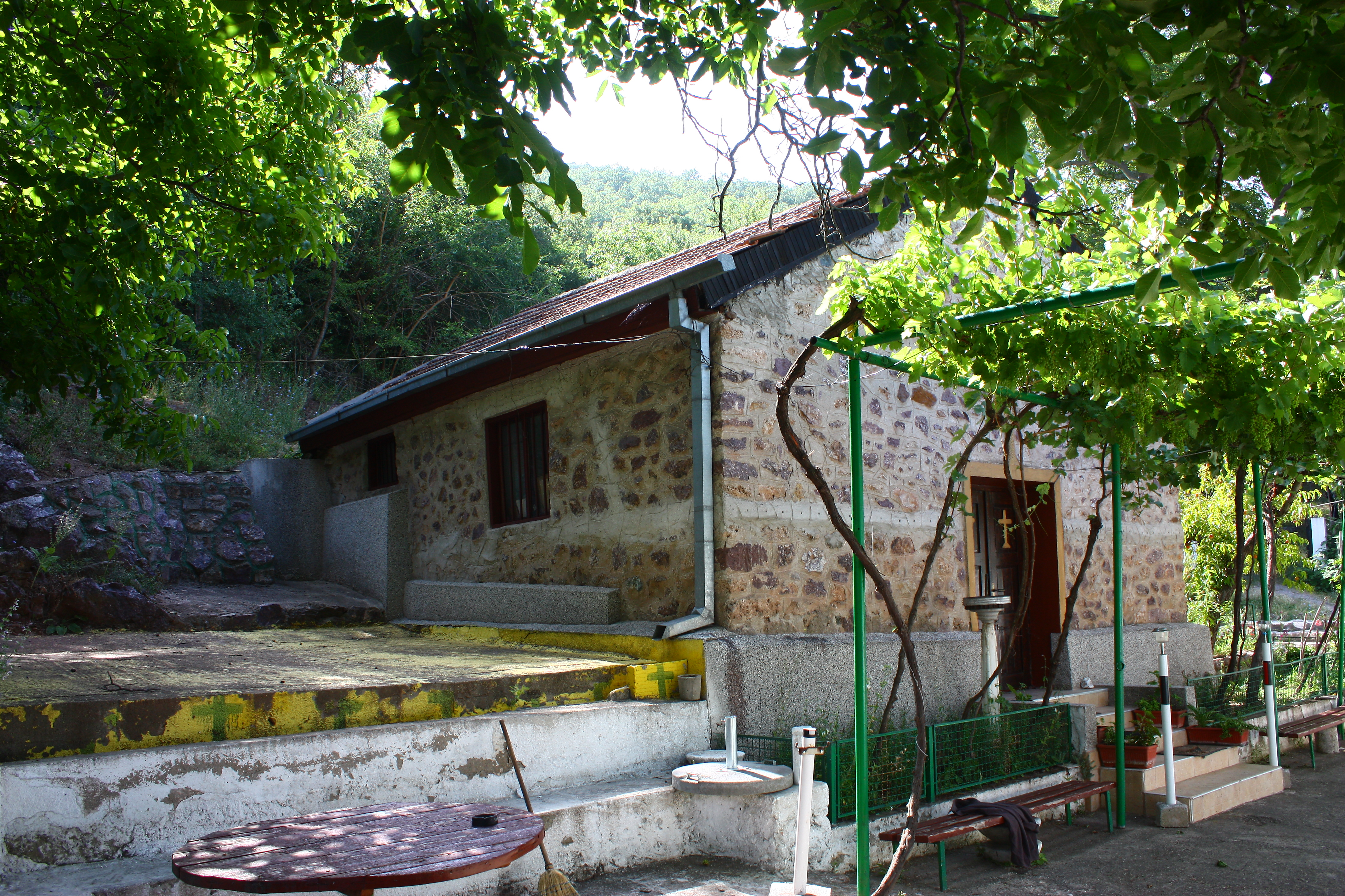 St. John the Baptist Church in Vetersko, Macedonia